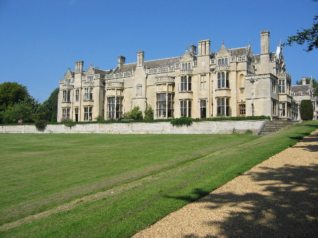 Rushton Hall, near Corby